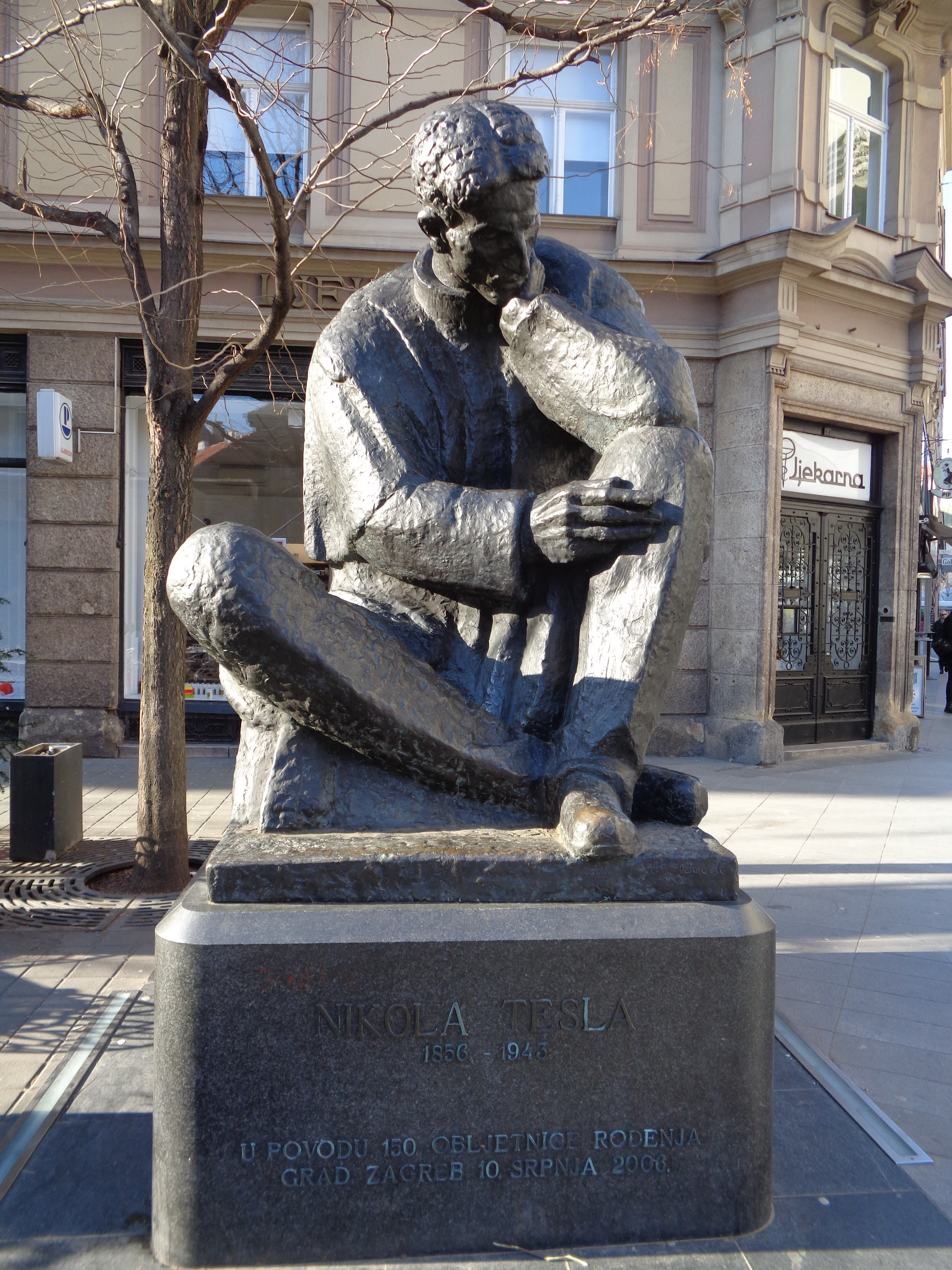 Nikola Tesla statue in Zagreb, Croatia, at the corner of Nikola Tesla Street, work of Ivan Meštrović - south viewHrvatski: Kip Nikole Tesle u Zagrebu, Hrvatska, na uglu ulice Nikole Tesle, rad Ivana Meštrovića - južna strana